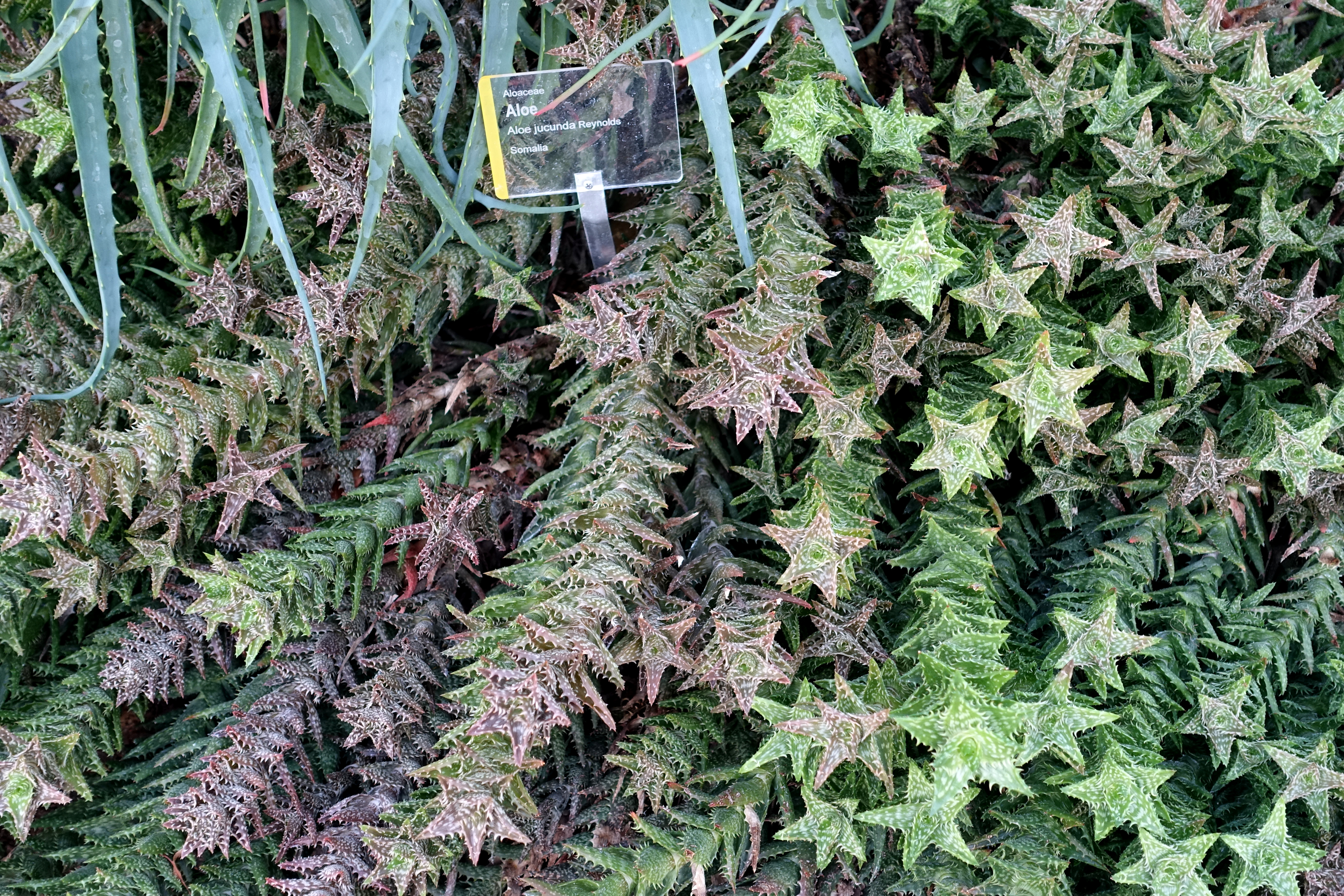 Mislabelled Botanical specimen in Wilhelma Zoo - Stuttgart, Germany.